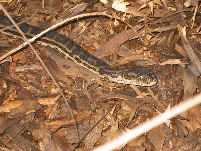 (S)he was quite docile - very well behaved! So well behaved I touched him/her :)